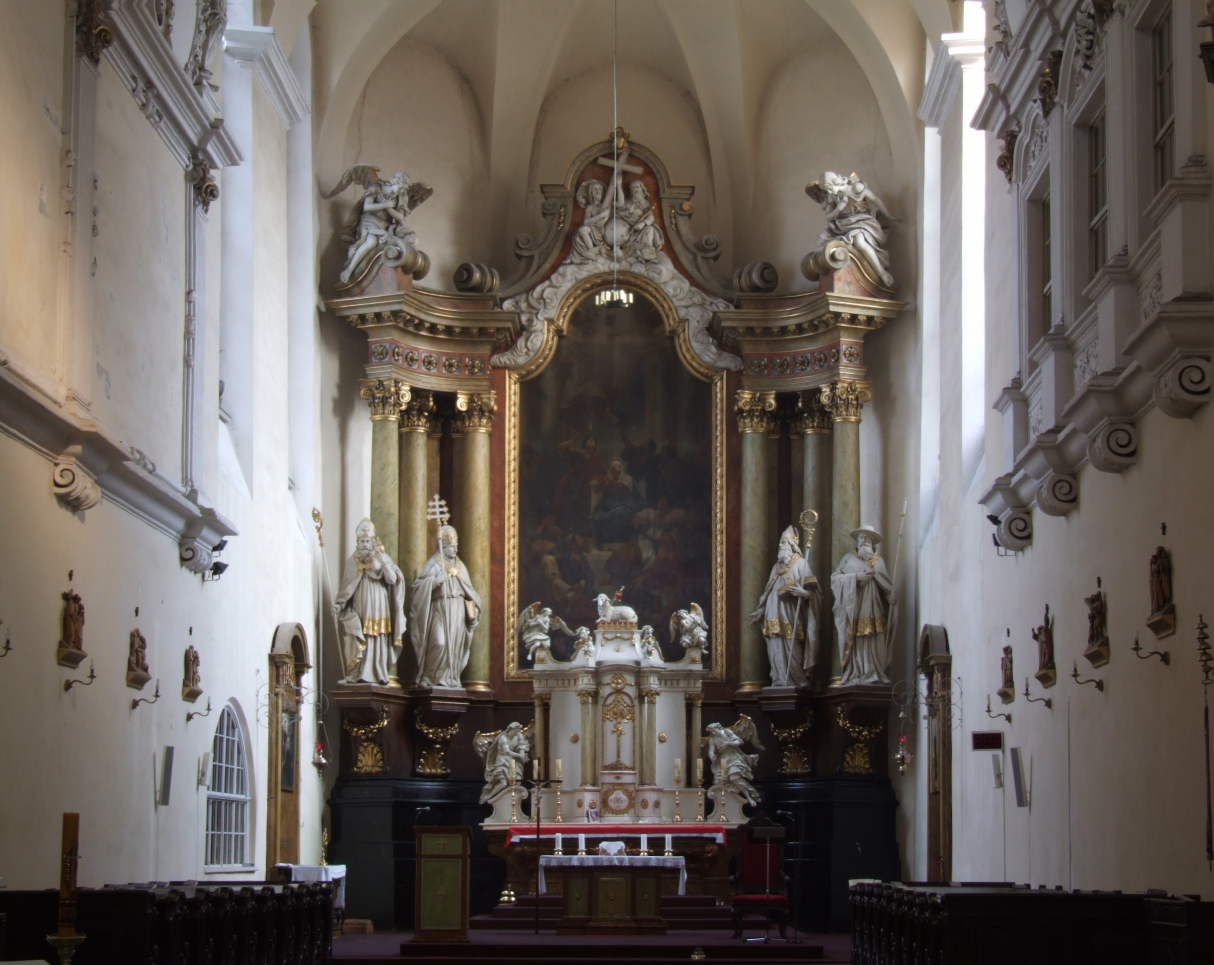 University Church in Opava (Troppau), Czech Silesia